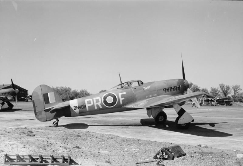 IWM caption : Typhoon Mark IB, DN604 ‘PR-F’ “Mavis”, of No. 609 Squadron RAF, on the ground at Manston, Kent. The aircraft displays a score tally of 18 locomotives destroyed in ground attacks on the fuselage side.